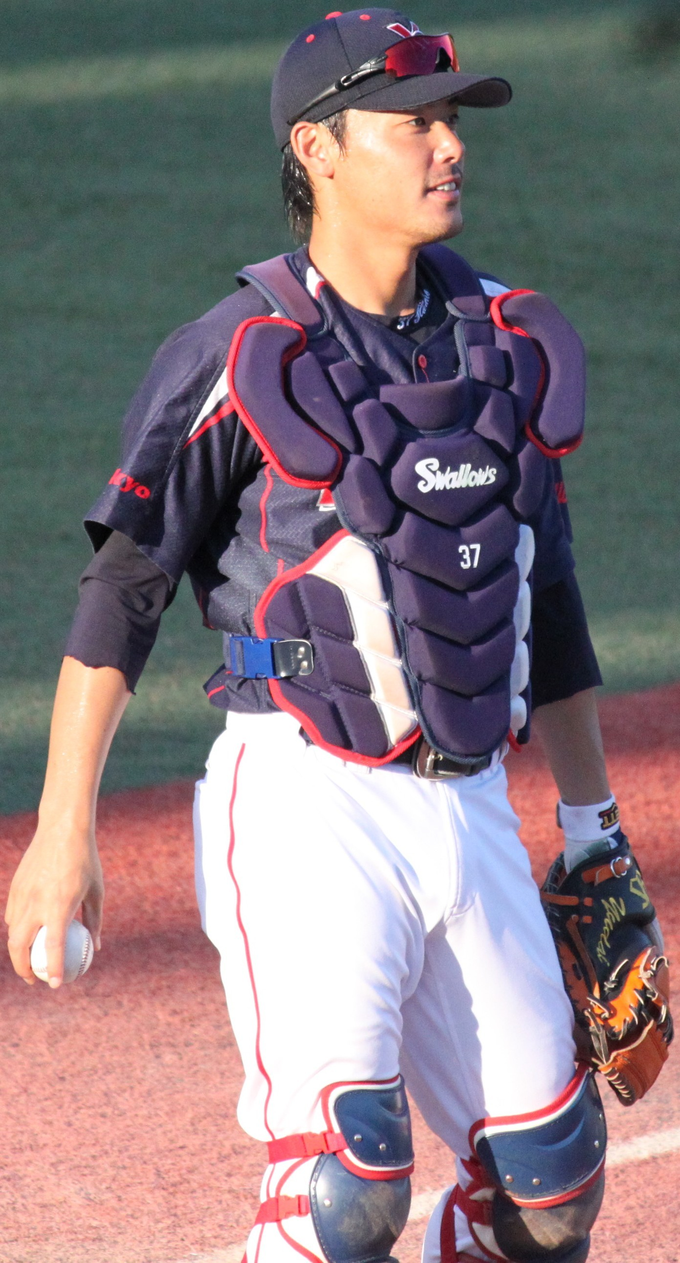 Yudai Hoshino, catcher of the Tokyo Yakult Swallows, at Yokosuka Stadium.